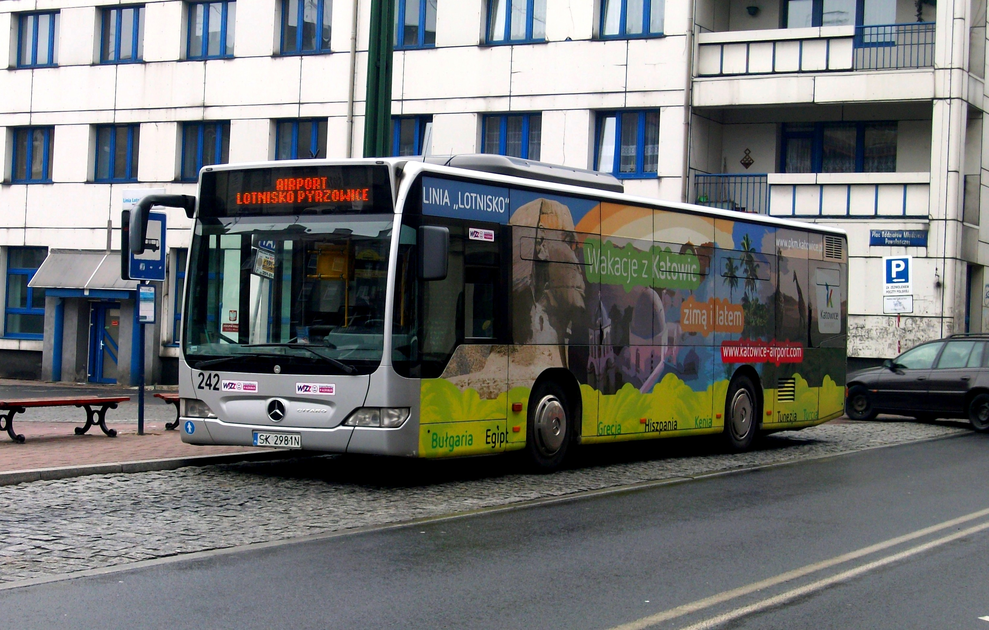 Mercedes-Benz O 530 Citaro K bus (#242, reg. SK 2981N) in Katowice, Poland. Built 2008, PKM operator.